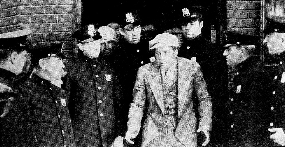 Scene from the 1928 film Me, Gangster.